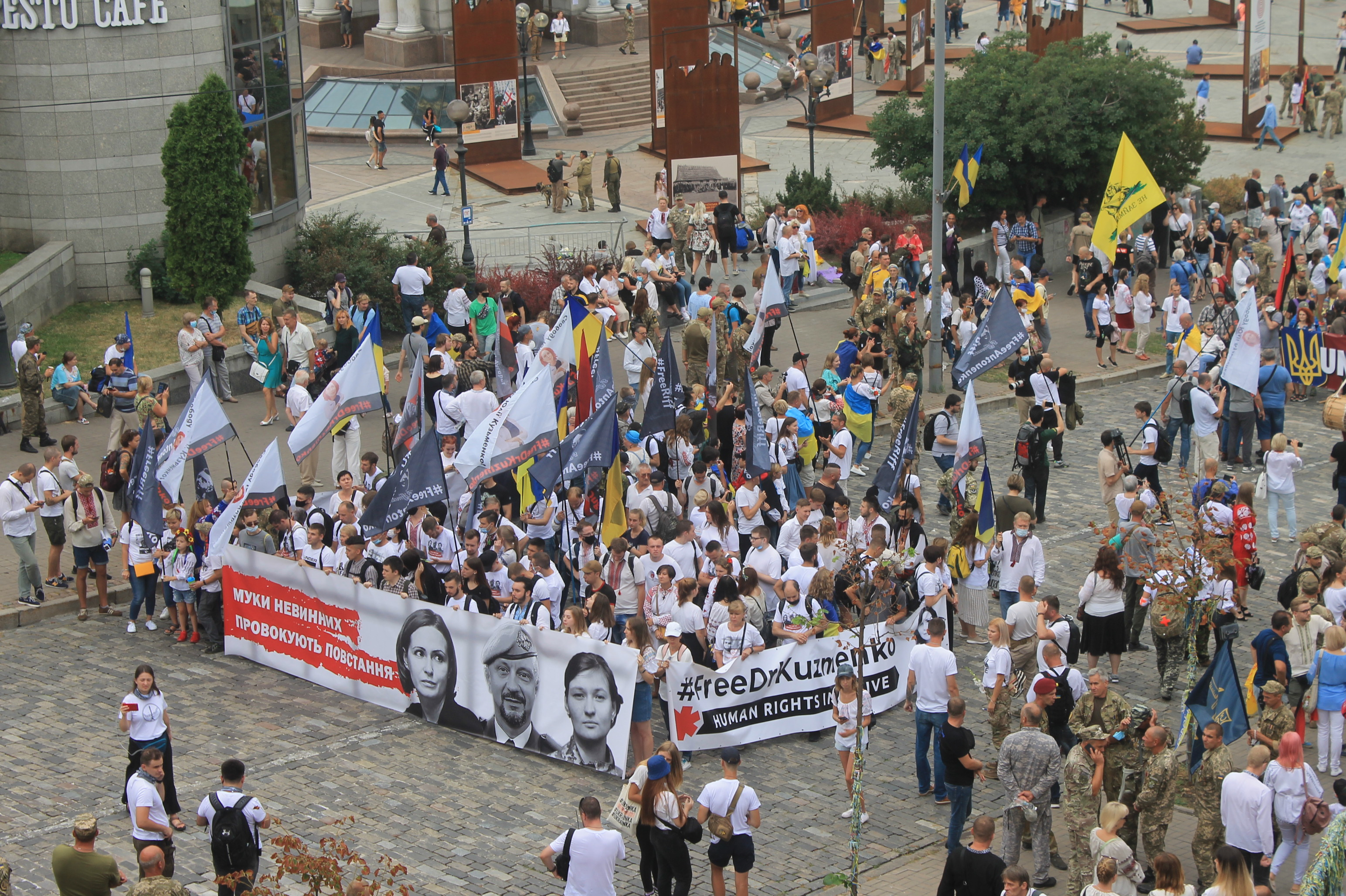 March of Ukraine's Defenders on Independence Day in Kyiv, 2020